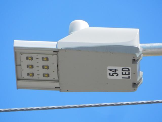 History of street lighting: Leotek E-Cobra EC2 (40-80 watts)